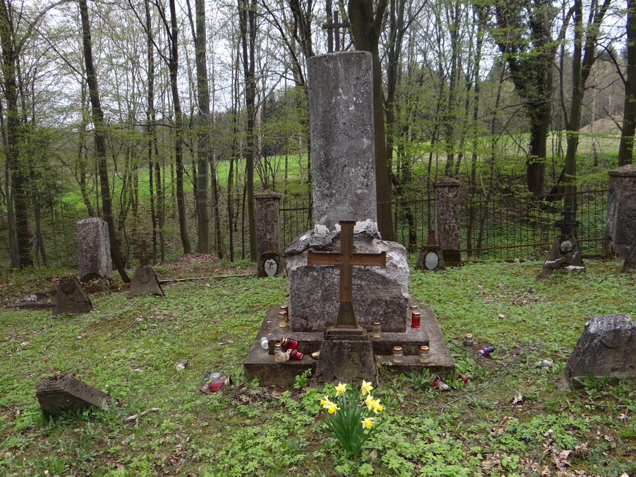 World War I Cemetery nr 149 - Chojnik